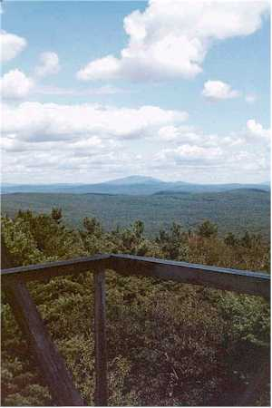 Mount Grace, Warwick, Massachusetts. Paul Gagnon 2004. View of Mount Monadnock from the Mount Grace fire tower